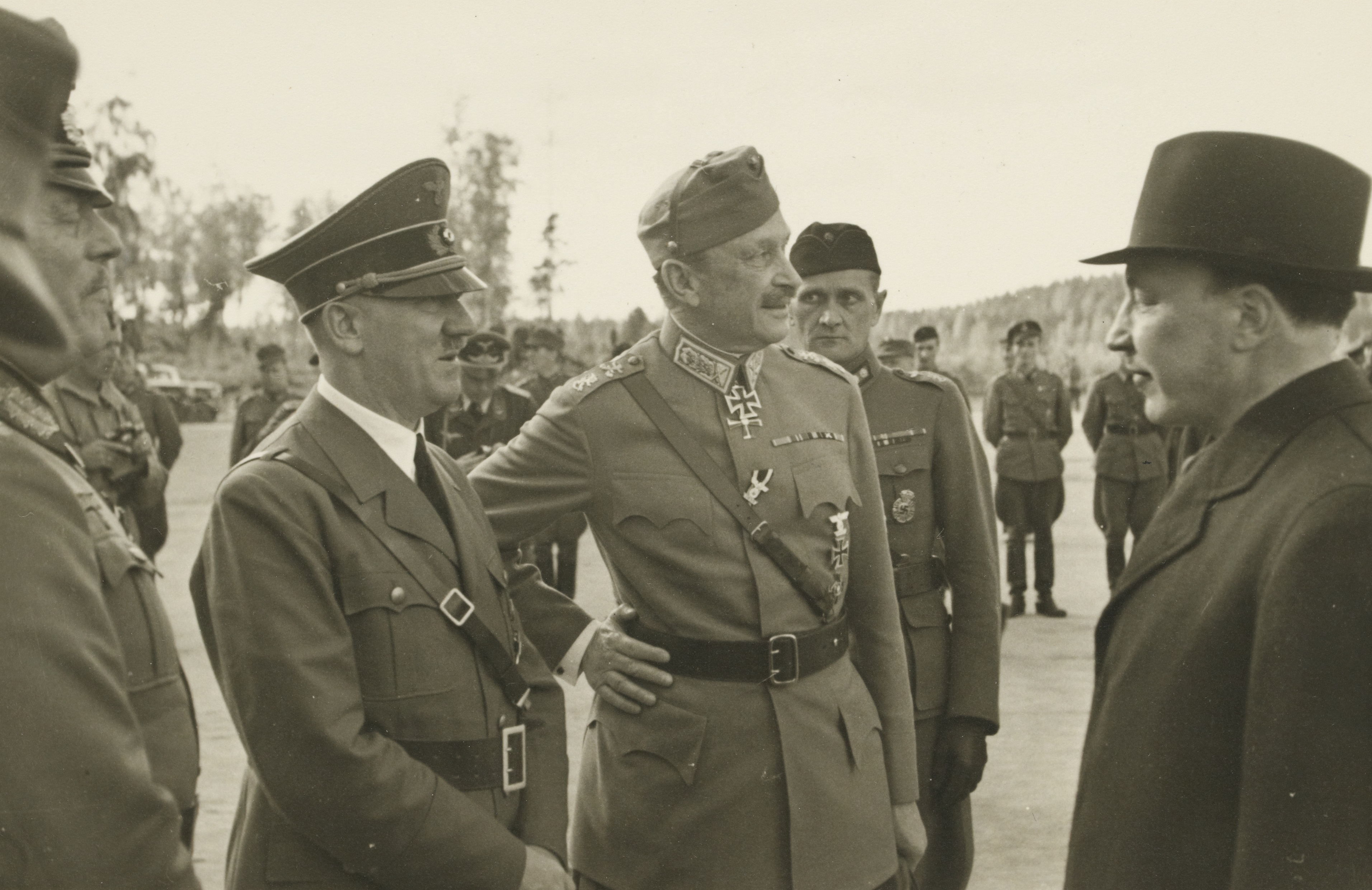 Wilhelm Keitel (left, Chief of German Armed Forces High Command), Adolf Hitler (Führer and Chancellor of Germany), C.G.E. Mannerheim (Commander-in-Chief of Finnish Defence Forces) and Risto Ryti (President of Finland) at Immola Airfield, east of Lappeenranta, Finland. Hitler makes a surprise visit in honour of Mannerheim's 75th birthday. The Hitler and Mannerheim recording was produced at the meeting.